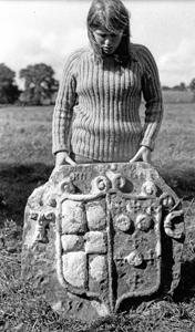 A paper describing the remains of the monument stones to Sir Thomas Cusack